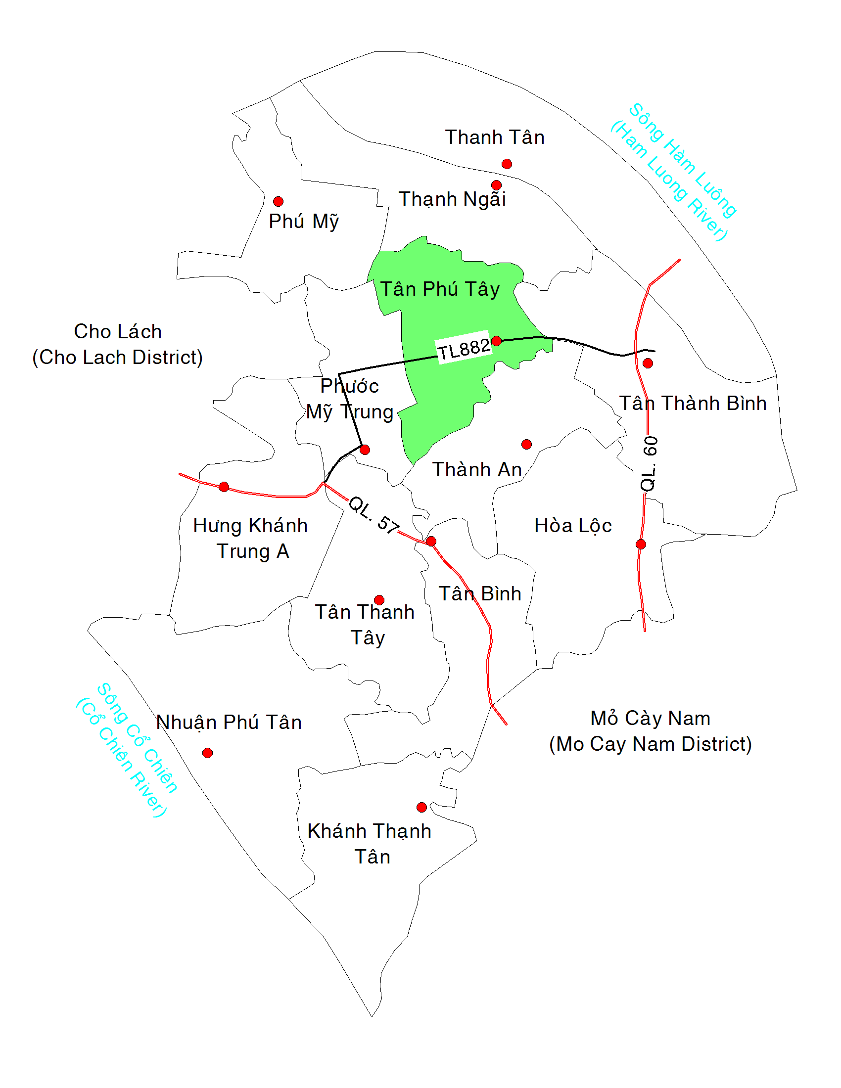 Locaiton map of Tân Phú Tây commune, Mo Cay Bac District, Ben Tre province, Vietnam